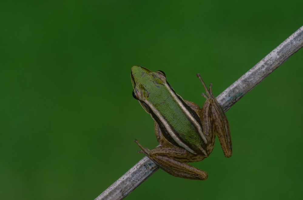 Hylarana tytleri - common pond frog